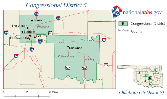 Oklahoma District Five. Image adapted from US fed gov't source